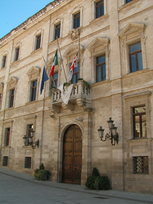 Palace of Asinara's Duke, Sassari XVIII century